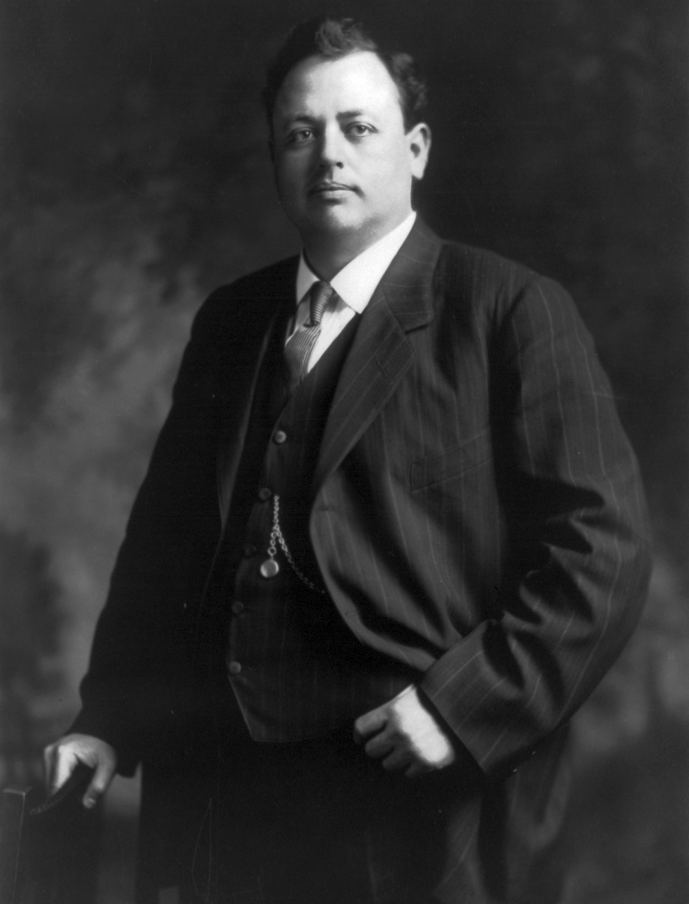 Hubert D. Stephens, US Senator and Congressman from Mississippi